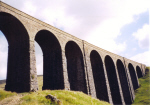 Artengill Viaduct on the Settle Carlisle railway in Dent, Cumbria. This is an image I (NPWJones) took with a 35mm camera (Espio 105G) while walking in the Yorkshire Dales, and scanned from a Colorama 5" x 7" print using a flatbed scanner (Lexmark X73).